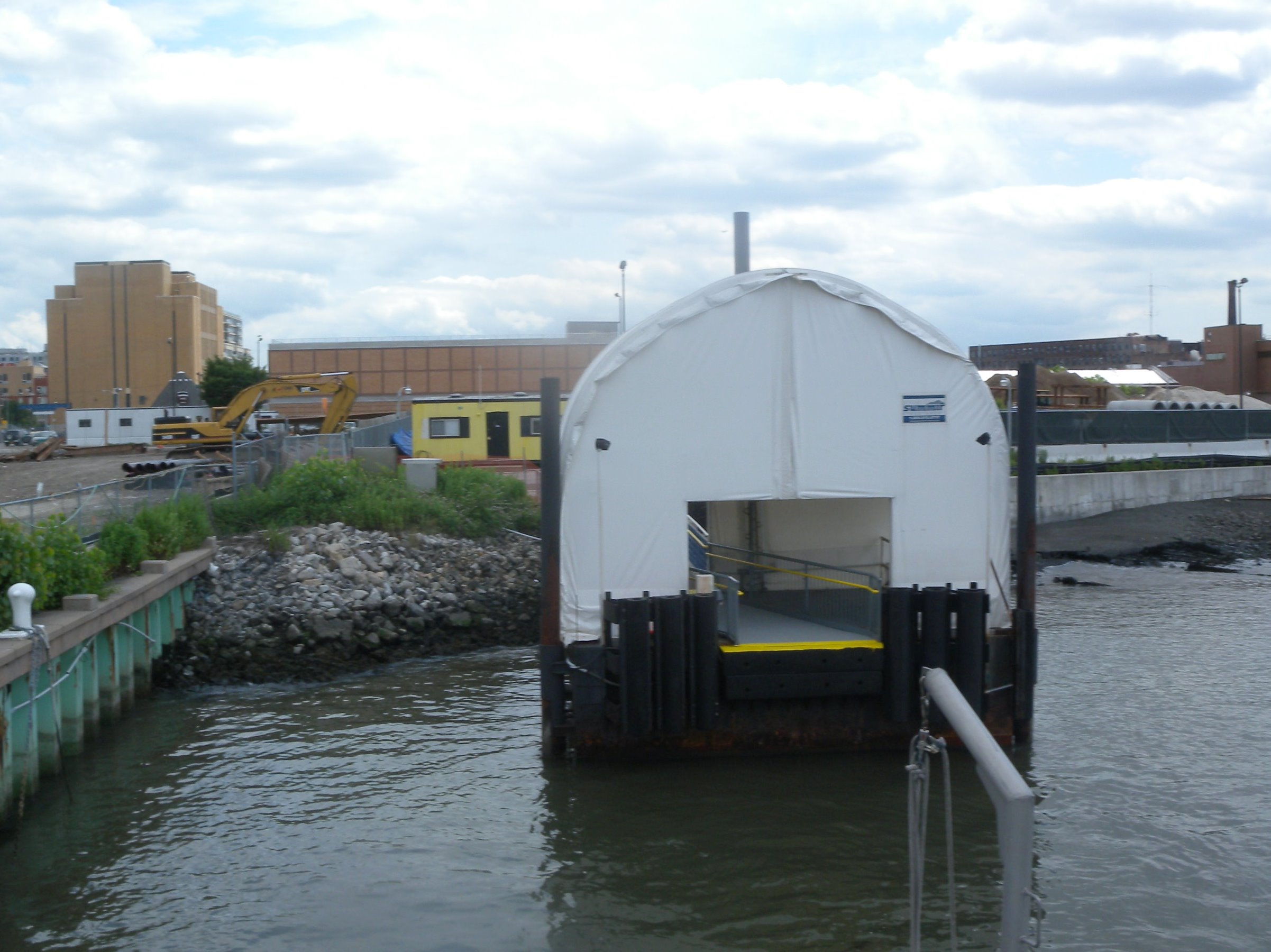 Looking east at Long Island City dock on a mostly cloudy midday. Queens-Midtown Tunnel ventilation building in background left.